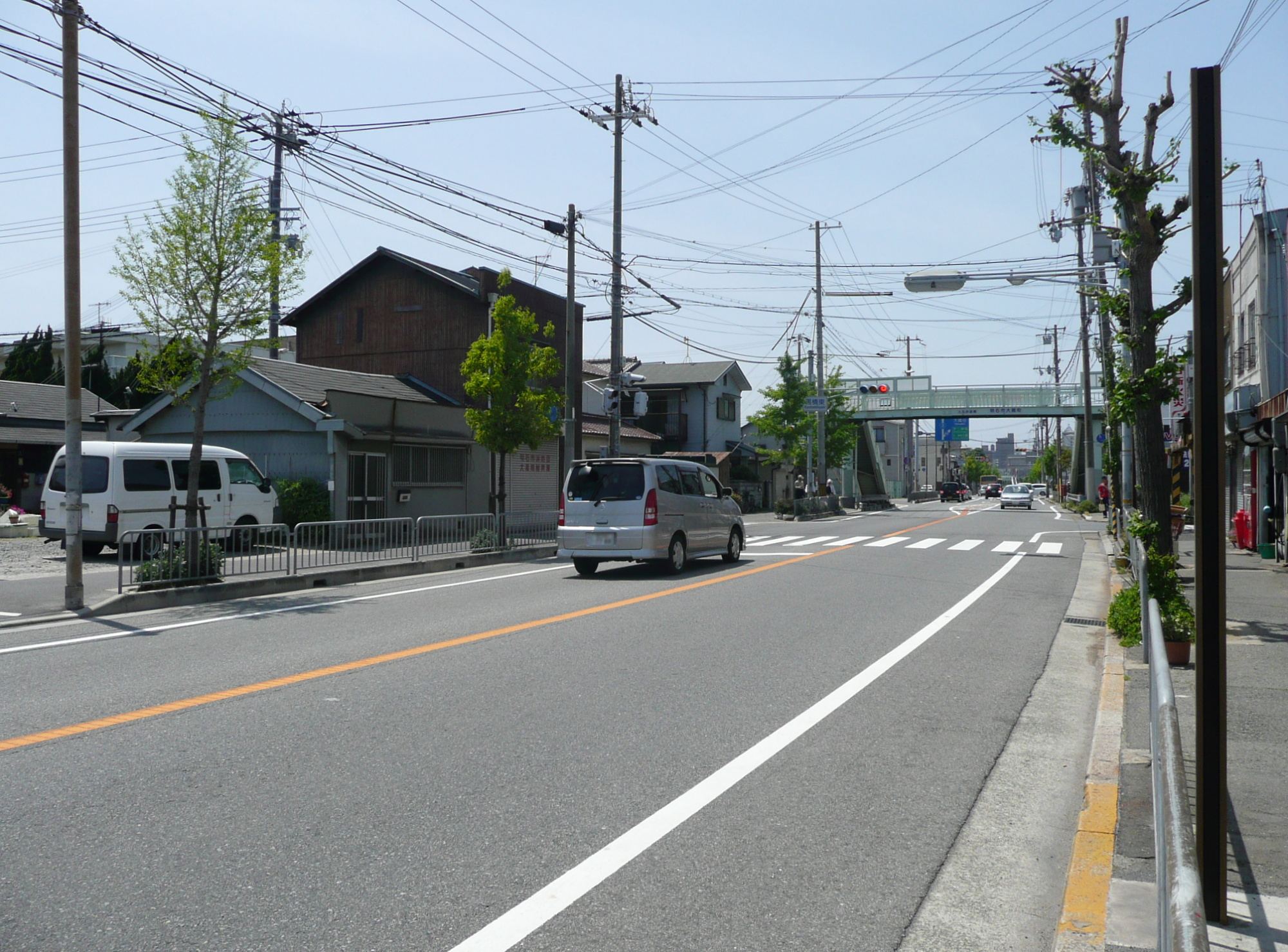 The vicinity of Okuradani Station (Sanyo Electric Railway). / 山陽電気鉄道大蔵谷駅前付近